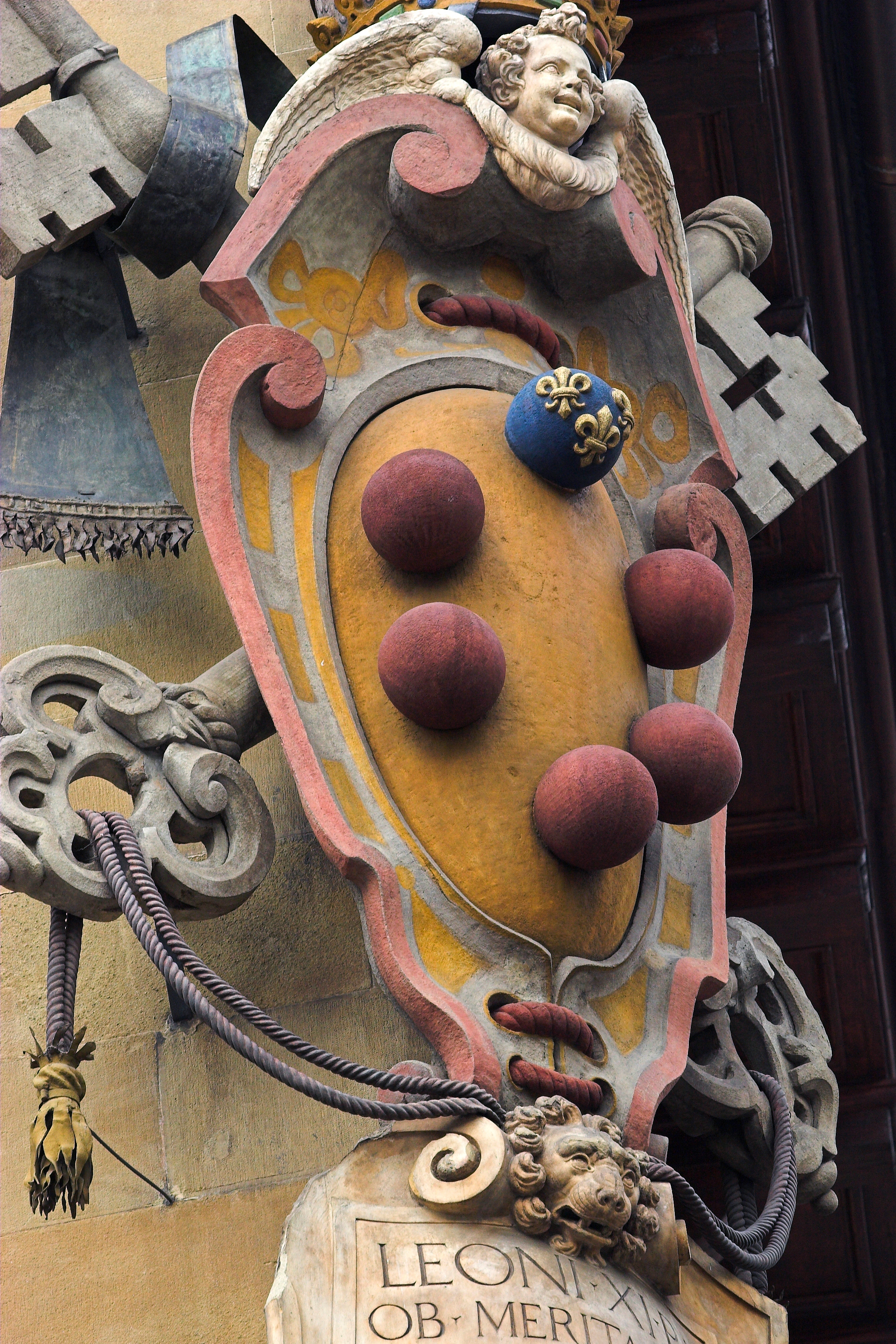 The Papal coat of arms of Pope Leo XI, a Medici pope. Firenze, palazzo arhivescovile.